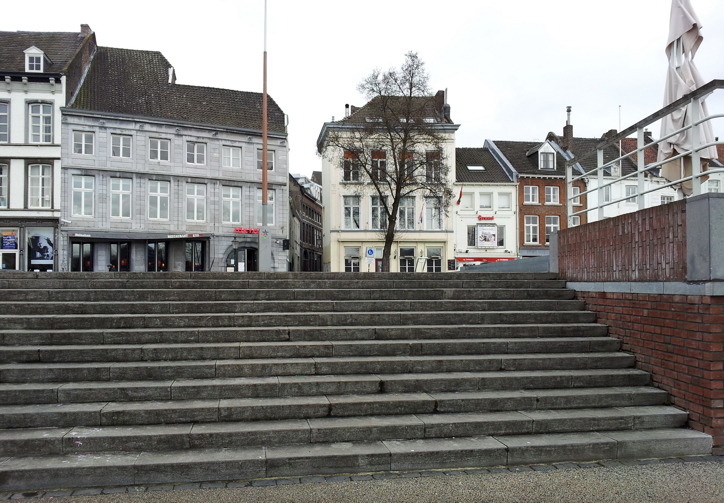 Maastricht, the Netherlands. View of Maaspromenade opposite Jodenstraat.